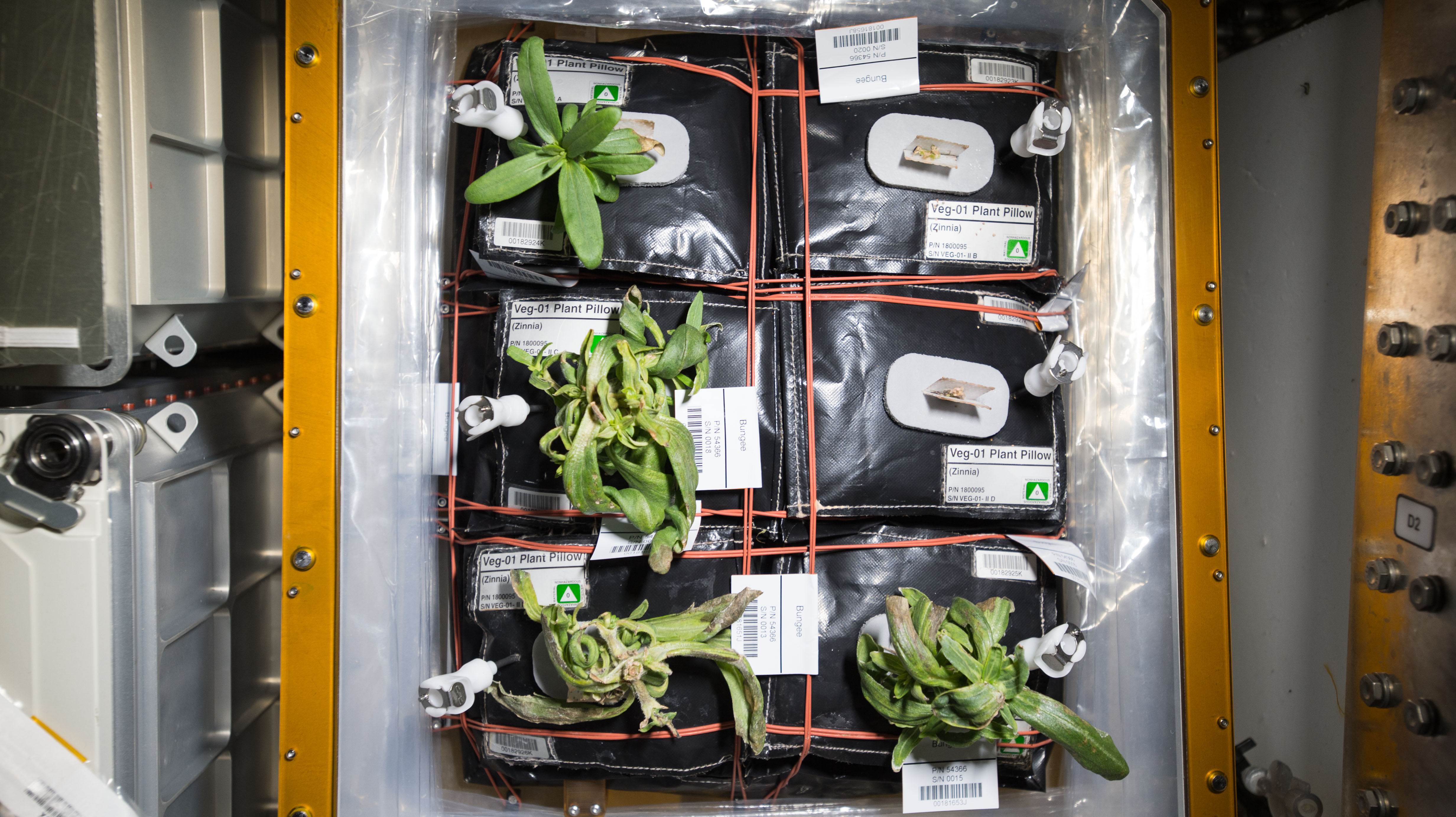 Zinnia flowers growing in planting “pillows” inside the International Space Station's Veggie facility are showing traces of mold, which will be collected and studied back on Earth. The experiment team will also attempt to correct the mold by increasing the fan speed and trimming and drying the leaves. Veggie is part of the VEG-01 investigation to grow plants in a growth chamber while comparing their progress to ground-based counterparts.